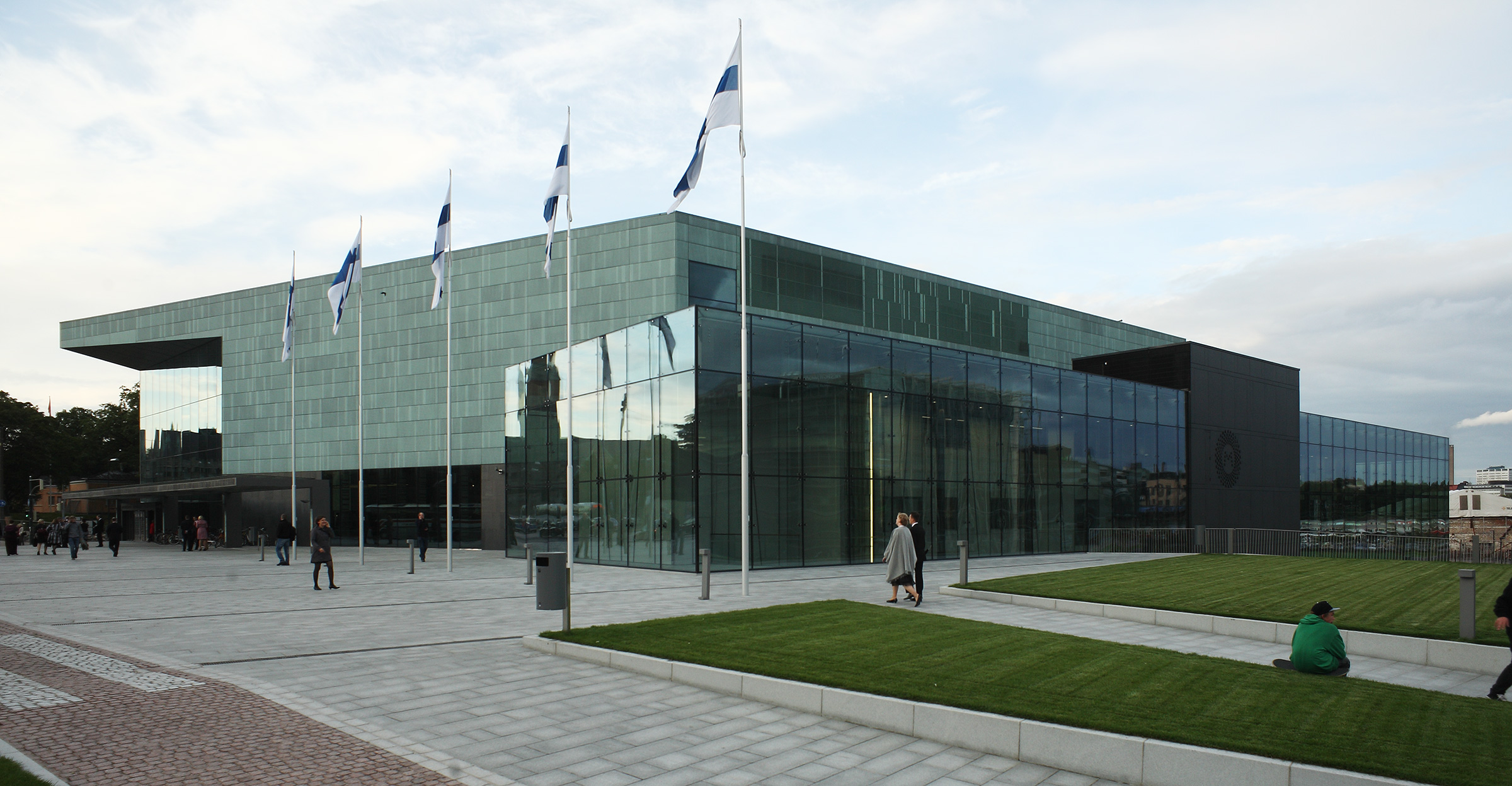 Helsinki Music Center, 9 September 2011